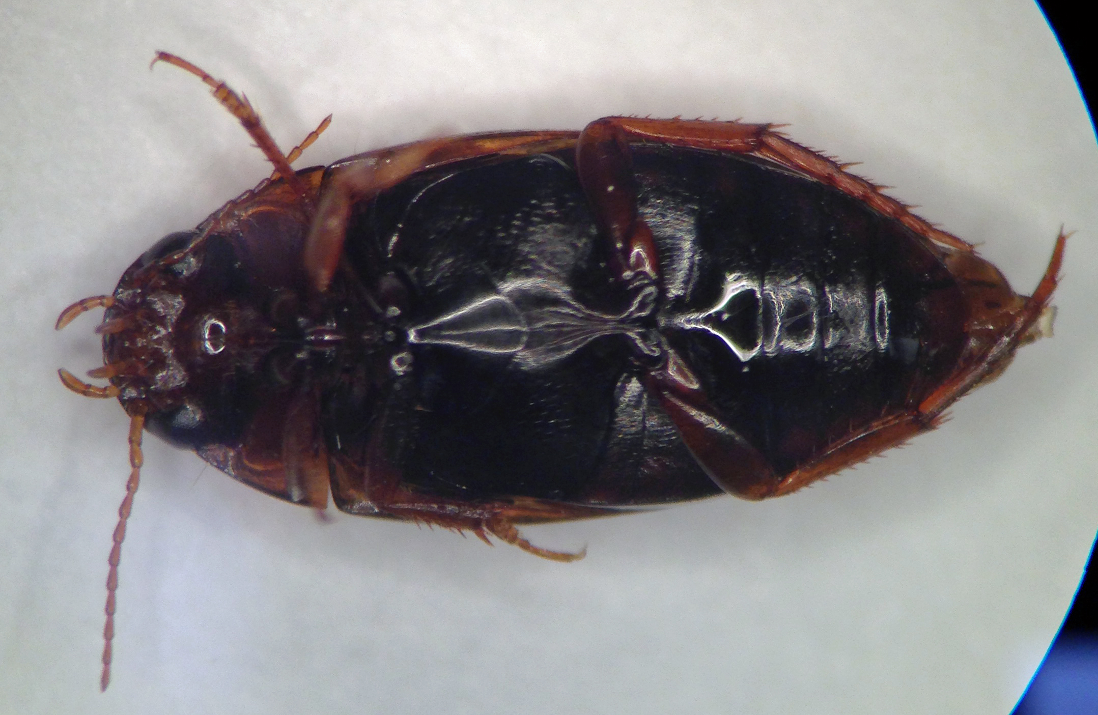 The ventral view of a dead adult Copelatus glyphicus collected from Tyson Research Center, Missouri in July 2013.